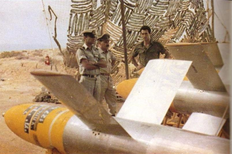 commander in chief of the Israeli navy,Yohai Ben-Nun, & officers at the Luz missiles test site (1960)